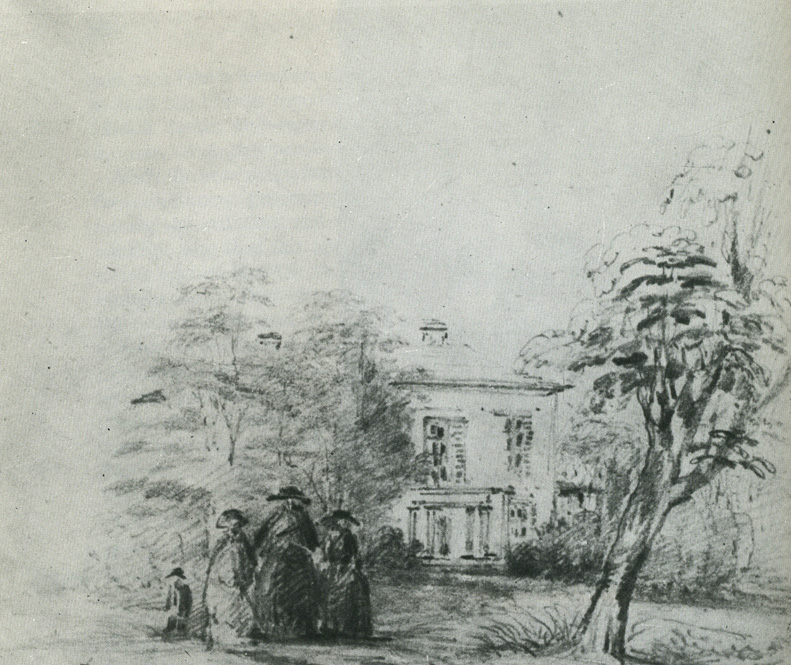 Wivenhoe, Camden, pencil sketch by Conrad Martens 1858